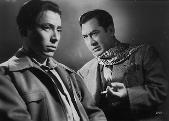 kōkichi Takada and Utaemon Ichikawa in 1950 Japanese movie Senritsu (Shiver).